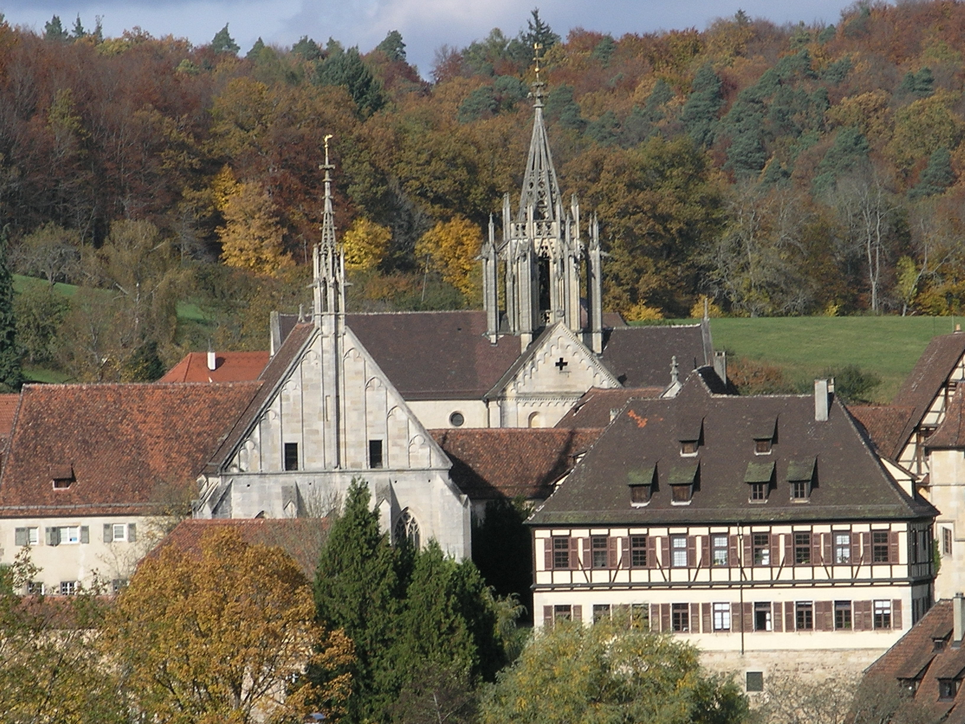 Village Bebenhausen with its famous monastery.